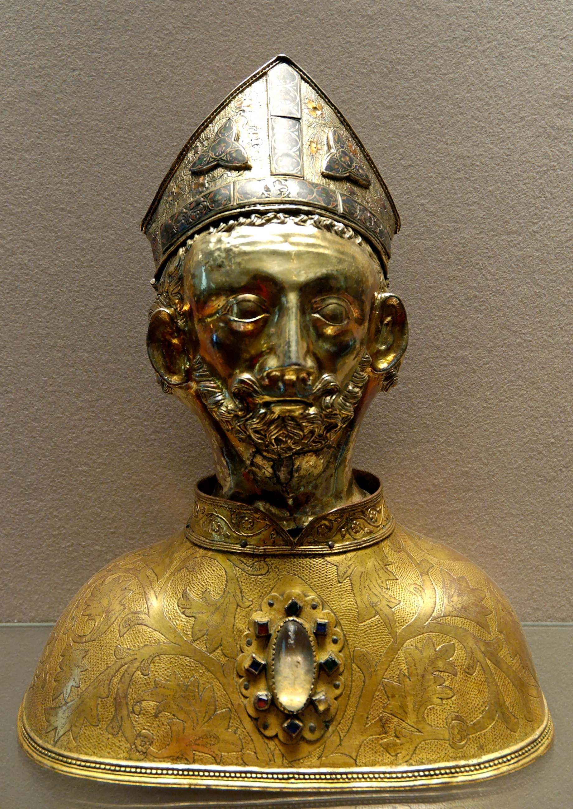 Head reliquary of St. Martin. Gilt silver and copper, basse-taille enamel over silver (restored in the 20th century), made in Avignon (?), late 14th century. From the church of Soudeilles (Corrèze, France).